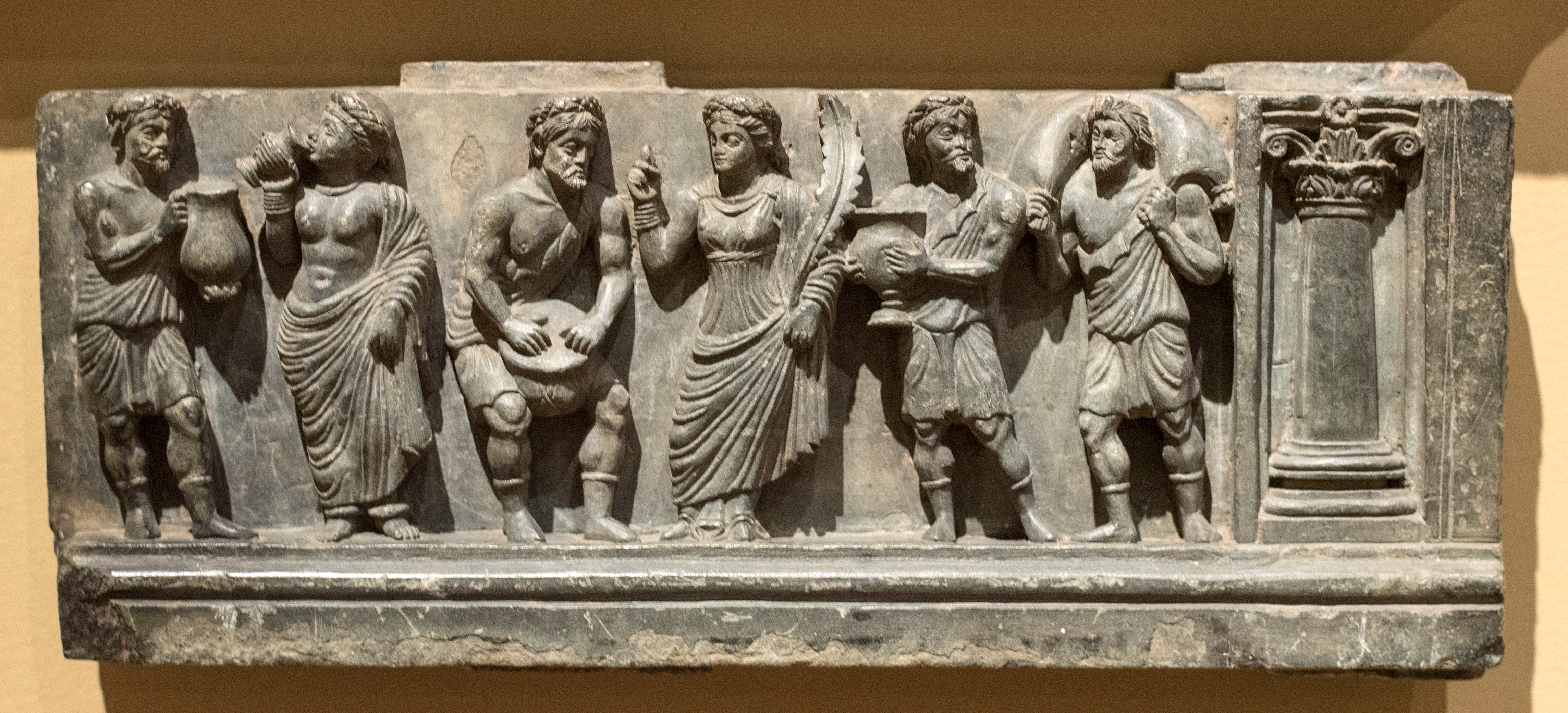 Buner reliefs Greek bacchanalian cropped